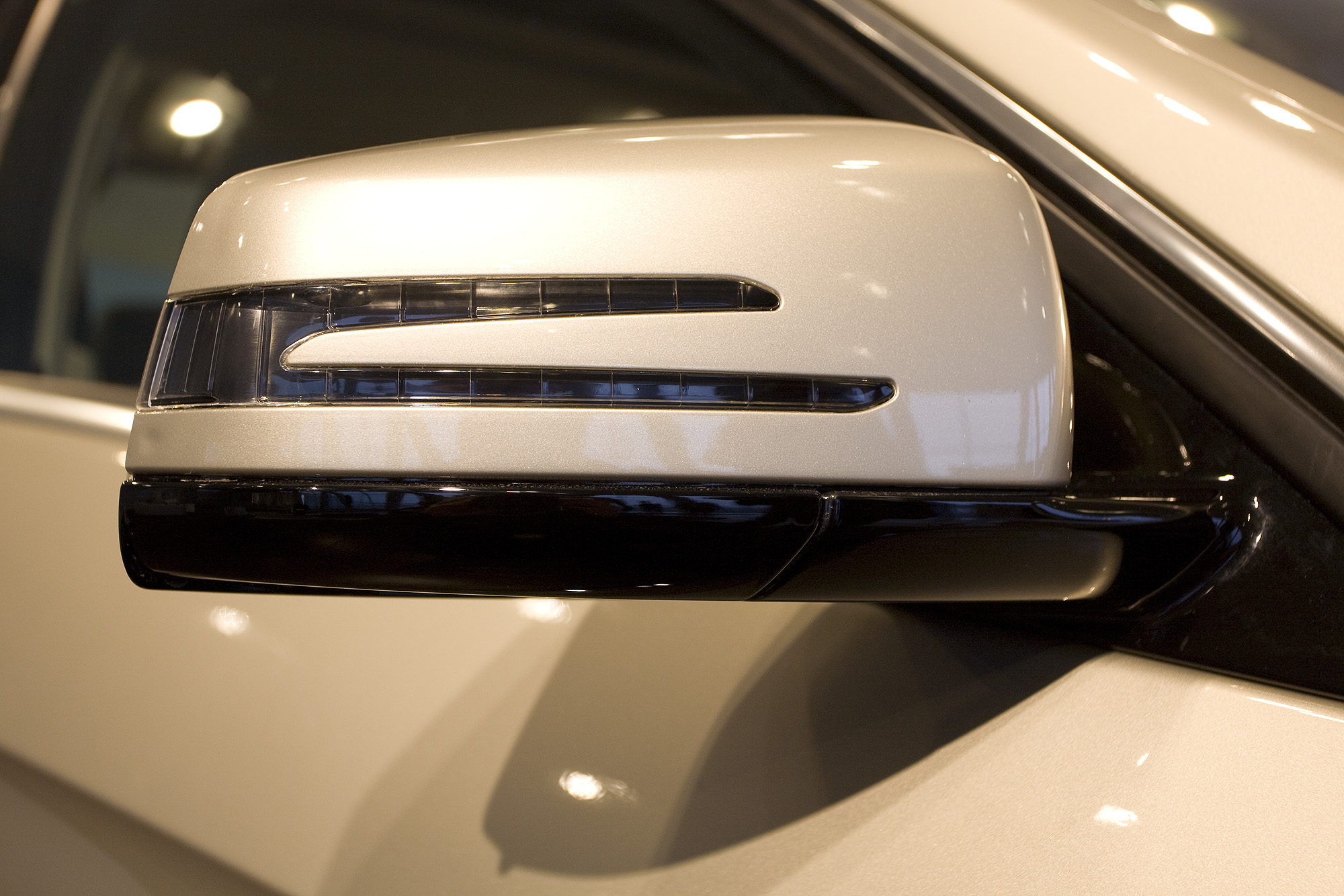 Mirrow of the new E-Class, W212.